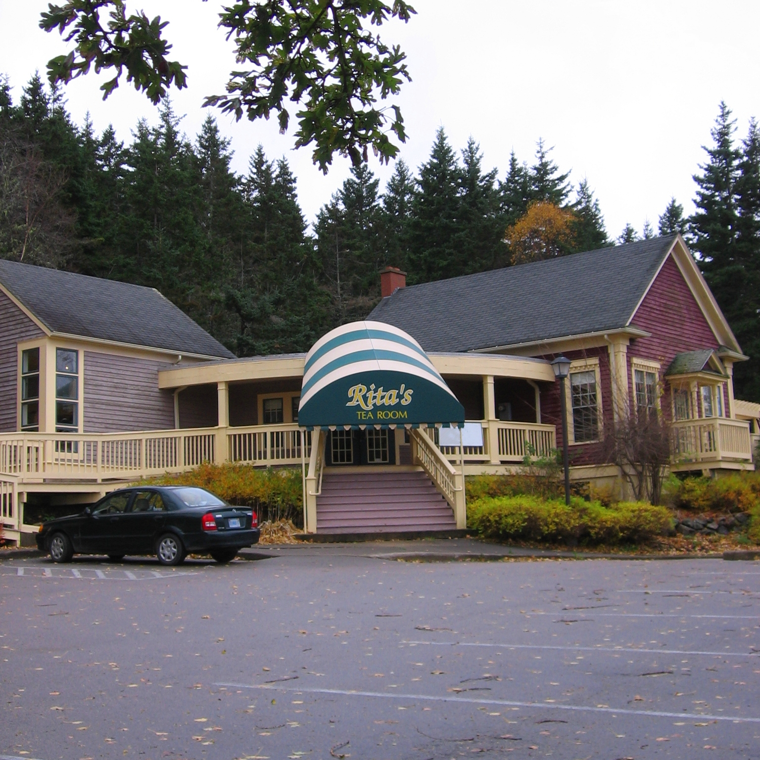 Rita MacNeil's Tearoom, a landmark in Big Pond, Cape Breton, Nova Scotia